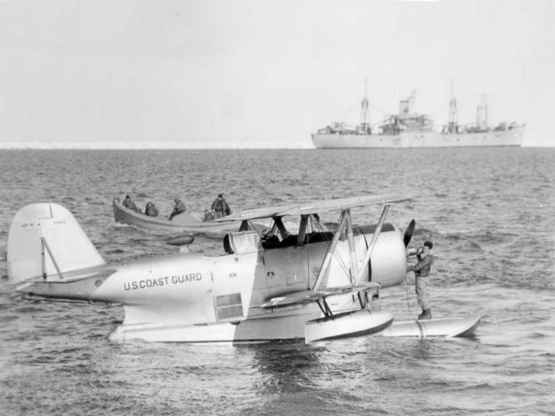 A U.S. Coast Guard Grumman J2F-6 Duck during "Operation Hughjump" in Antarctic waters, 7 January 1947. In the background is one of the two Andromeda-class attack cargo ships taking part in the operation, either USS Yancey (AKA-93) or USS Merrick (AKA-97).